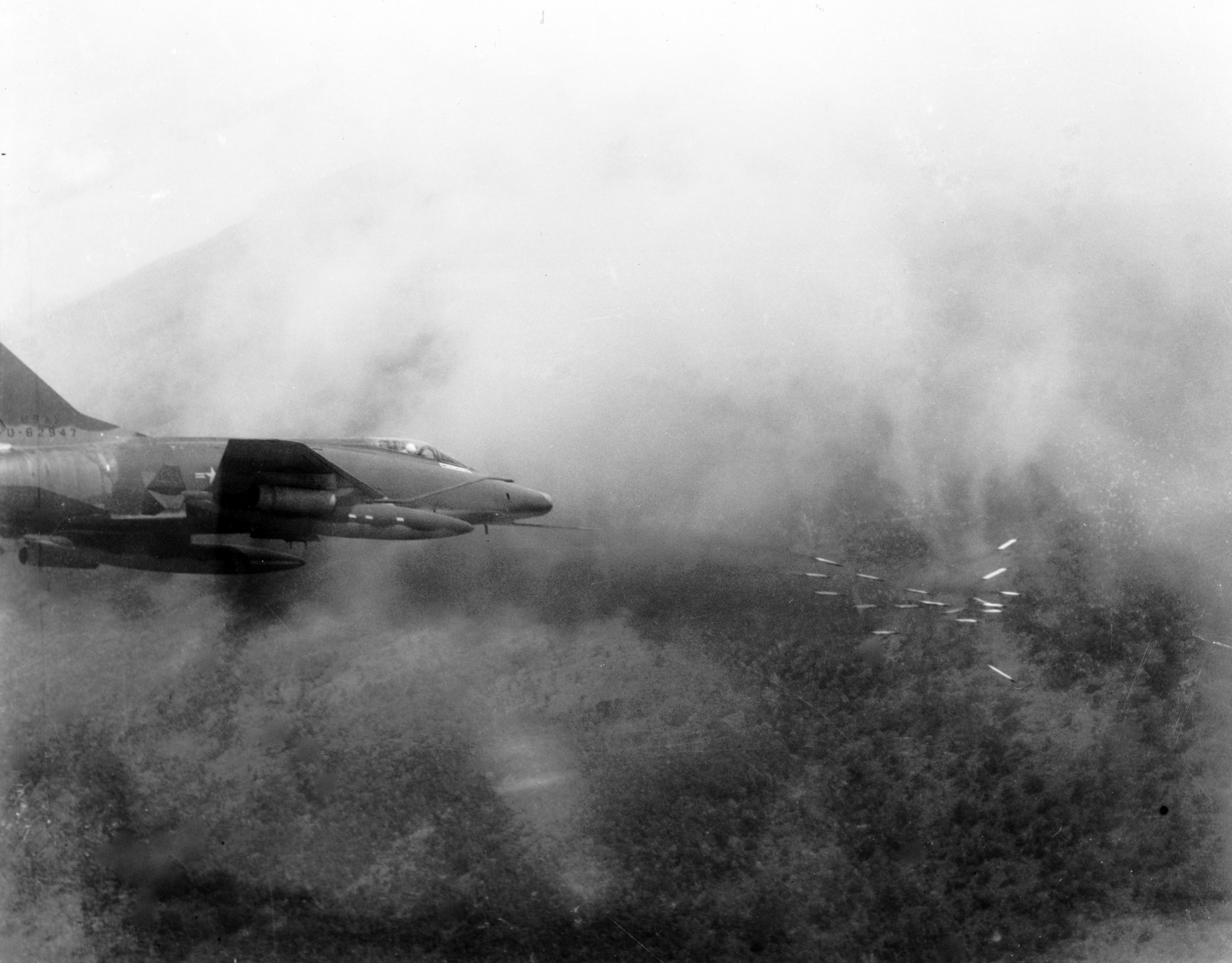 A U.S. Air Force North American F-100D-60-NA Super Sabre (s/n 56-2947) fires a salvo of rockets at a jungle target in South Vietnam.